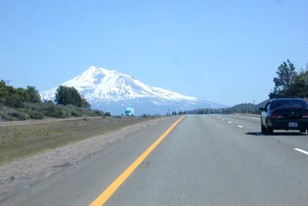 Southbound Interstate I-5 north of Mount Shasta (in view).